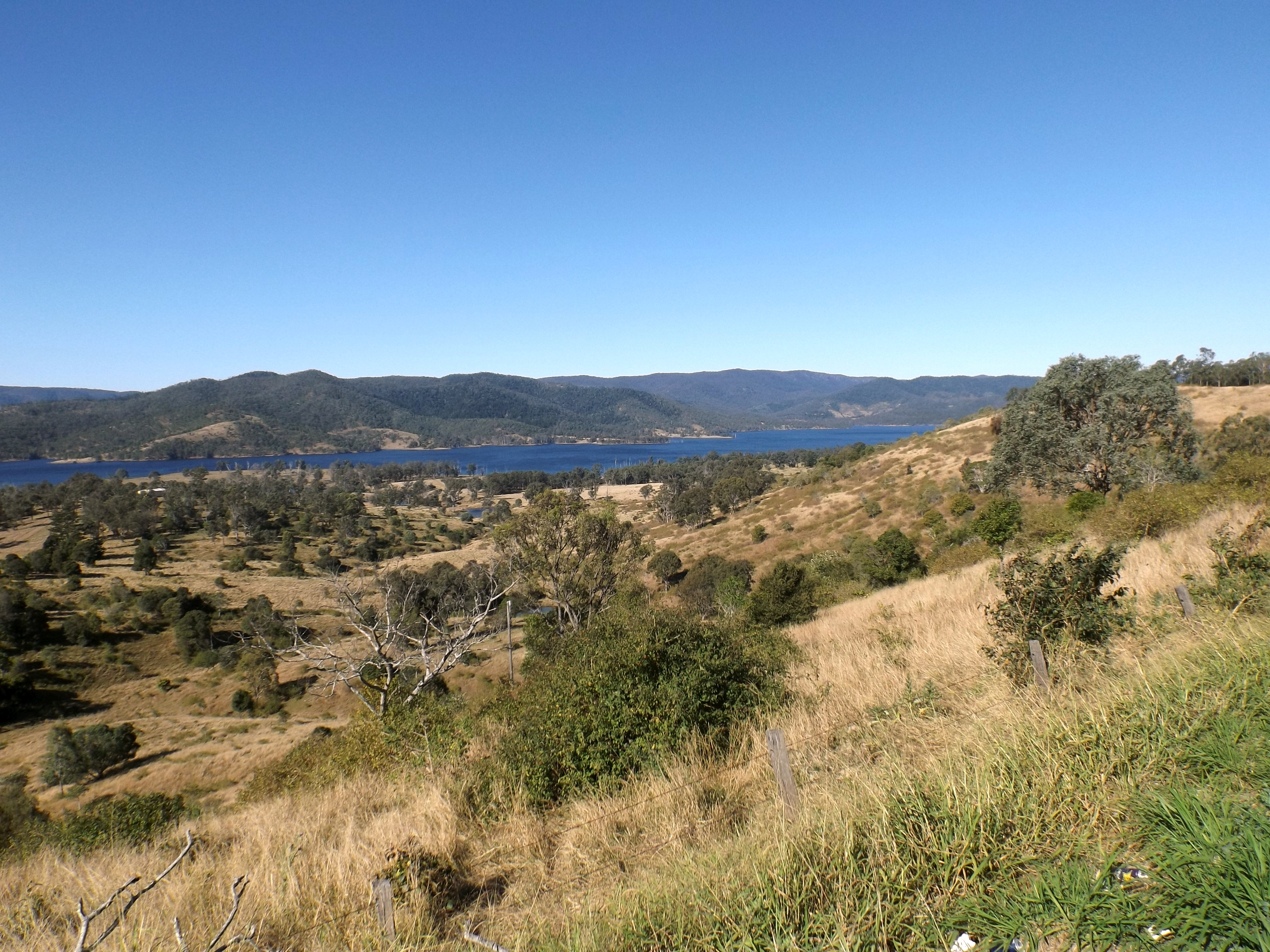 Photo of Somerset Dam from Esk Kilcoy Road at Hazeldean, Somerset Region, Queensland, Australia.